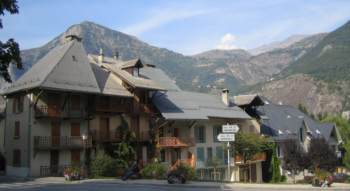 Le Bourg-d'Oisans, Isère, France. You can see L'Alpe d'Huez in the center-right. Photo taken by User:thbz, summer 2005.